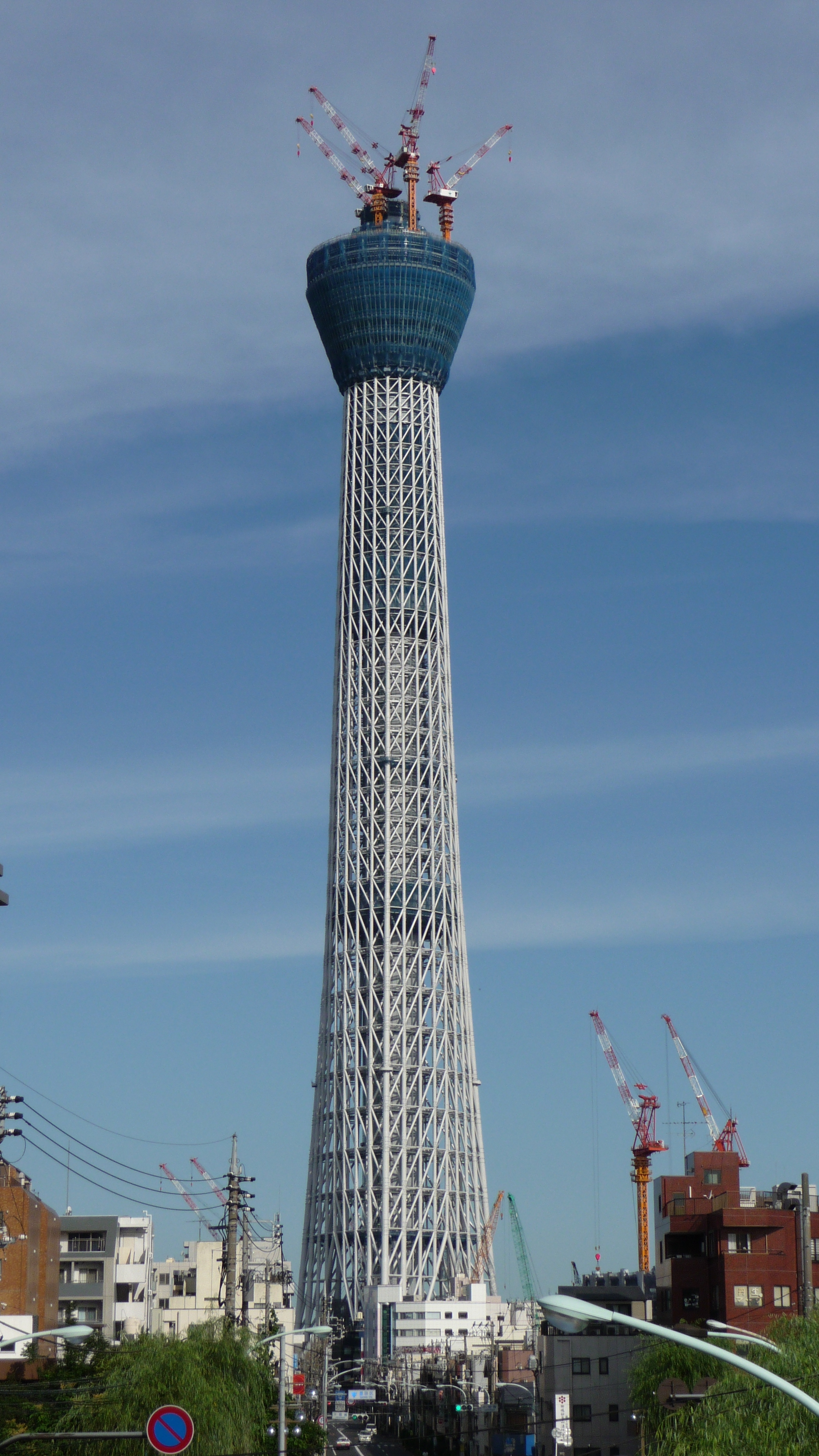 Tokyo Sky Tree view, under construction, reached to 398 meters on 29 May 2010. To start assemble the first observatory by structural steel at the height of 368m on 5 May 2010 and completed by about 4 July 2010. Four tower crane configuration begins from 2 July 2010 on the roof of first observatory, added one more crane to the three crane system. Photo taken at tower height of 398m (remain unchanged since 29 May 2010) on 10 July 2010.